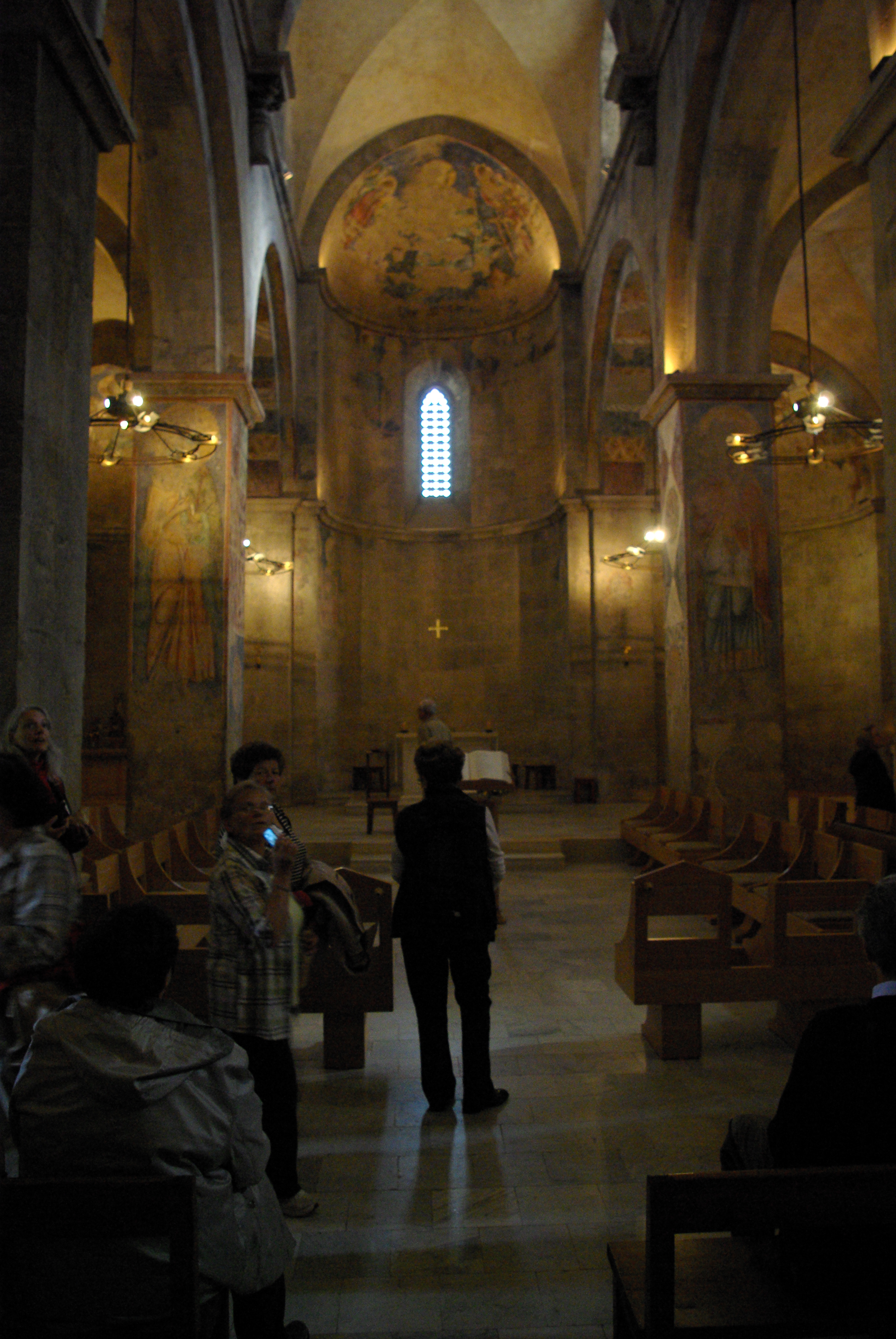 Israel, Abu Ghosh